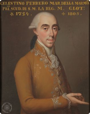 Celestino Ferrero della Marmora (1754-1805). Father of italian general Alfonso La Marmora (1804-1878)